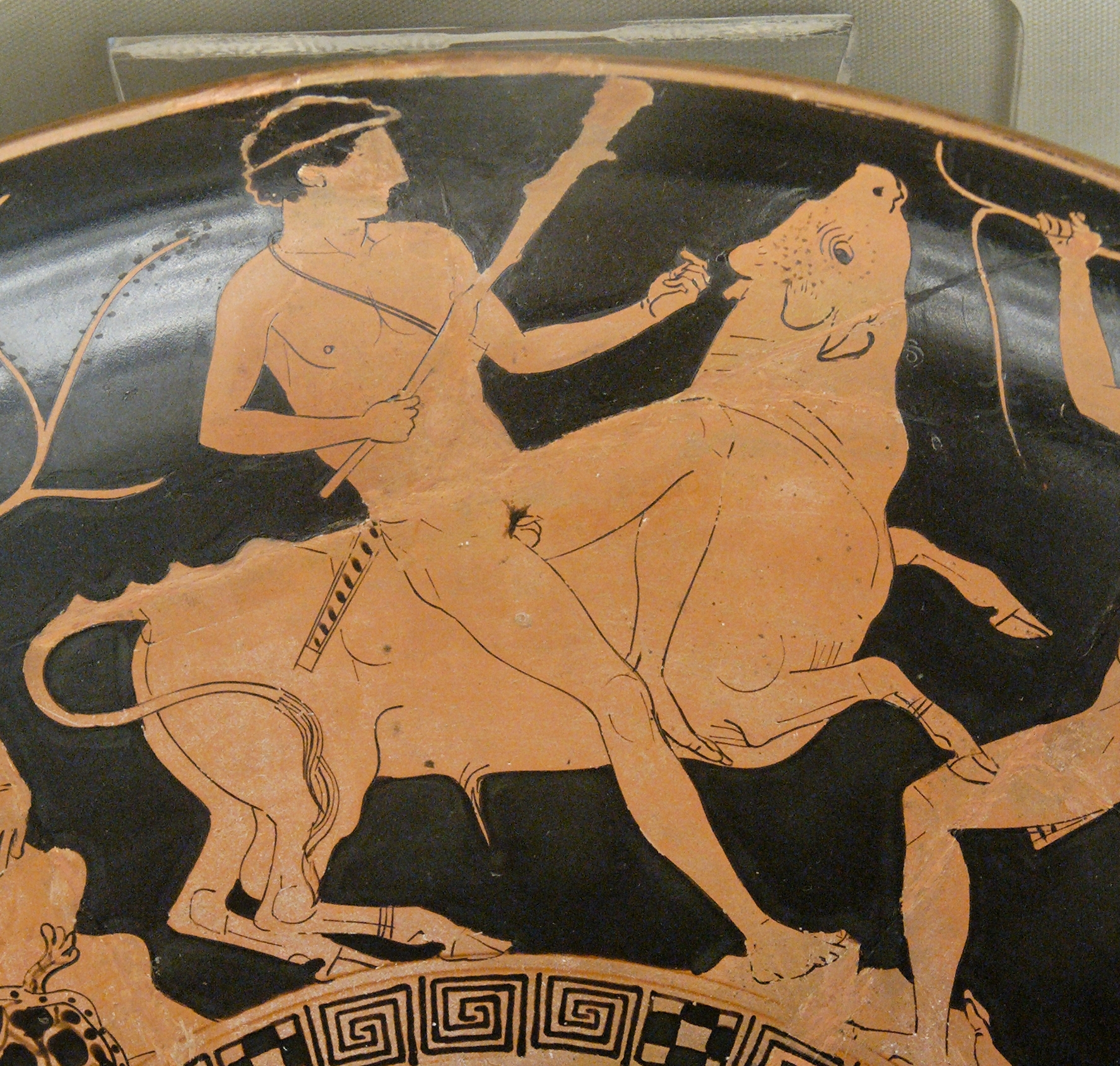 Theseus fighting the Bull of Marathon. Surround of the tondo of an Attic red-figured kylix, ca. 440-430 BC. Said to be from Vulci.